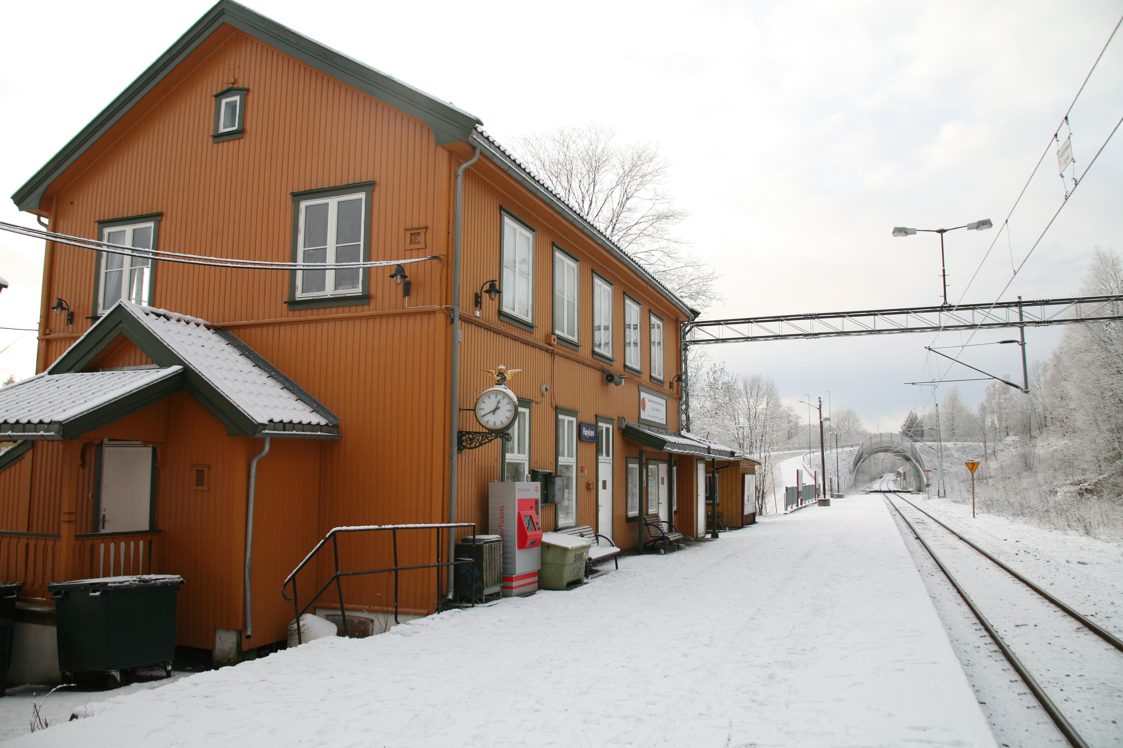 Picture of Røyken Railway Station (Buskerud - Norway)